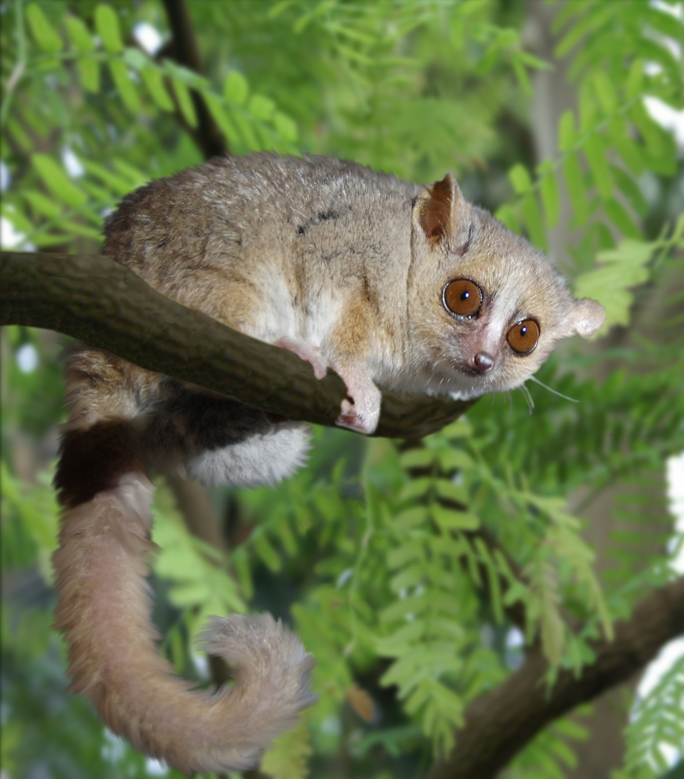 Gray Mouse Lemur (Microcebus murinus)